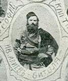 Portrait of IMARO member Ivan Iliev from Bitola